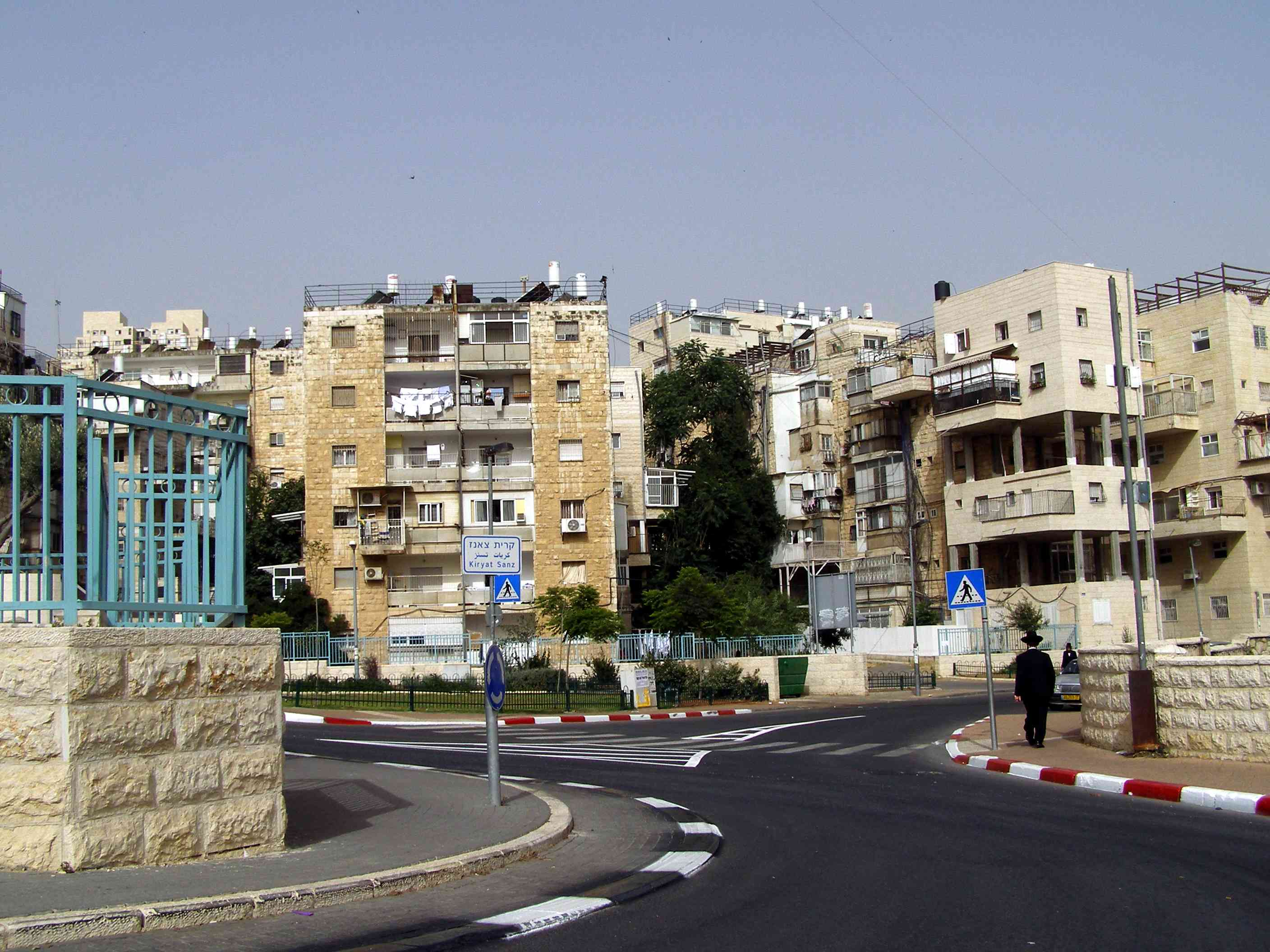 View of buildings in Ezrat Torah, Jerusalem, from perimeter of the Kiryat Sanz neighborhood